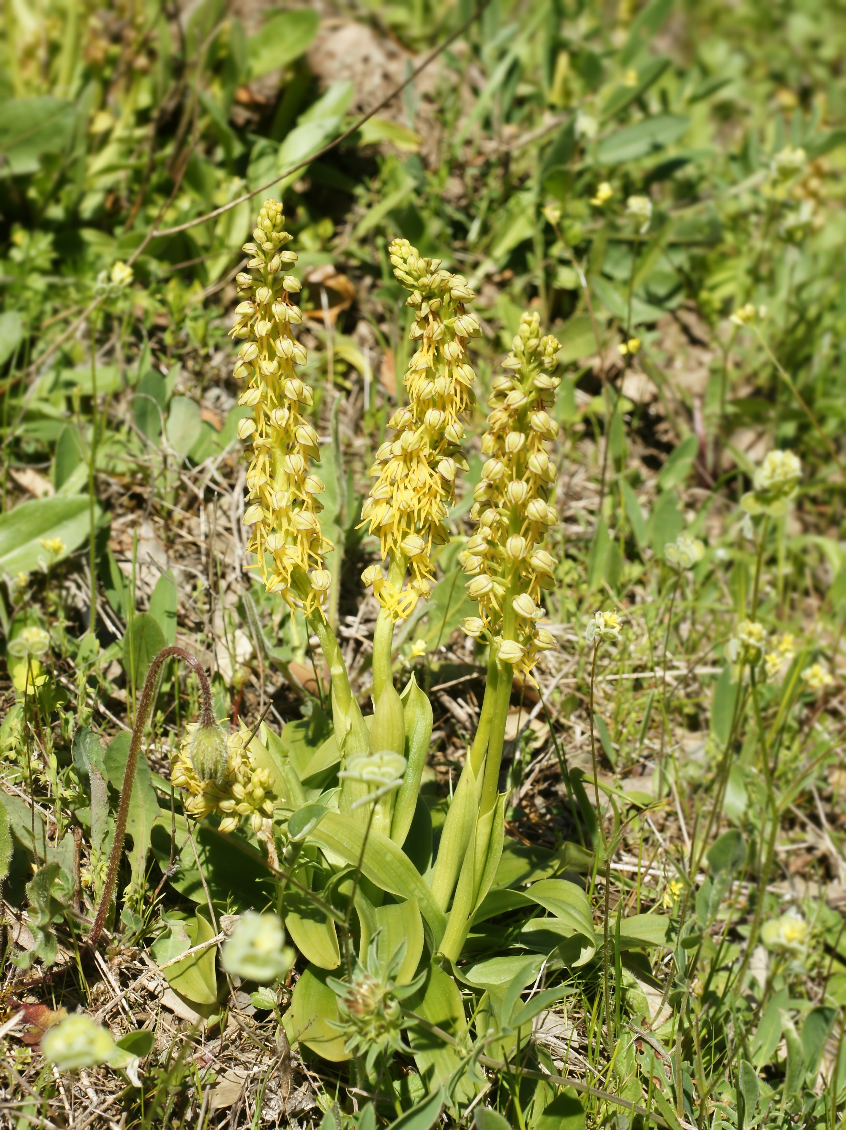 Man orchids. Approximate co-ordinates: plant located within 5 km from Ussassai, Sardinia, Italy